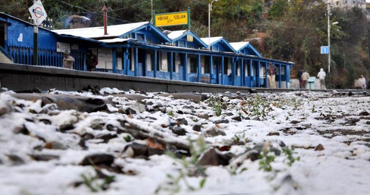 Solan railway station